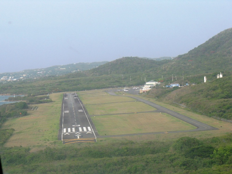 Antonio Rivera Rodriguez Airport, Vieques, Puerto Rico